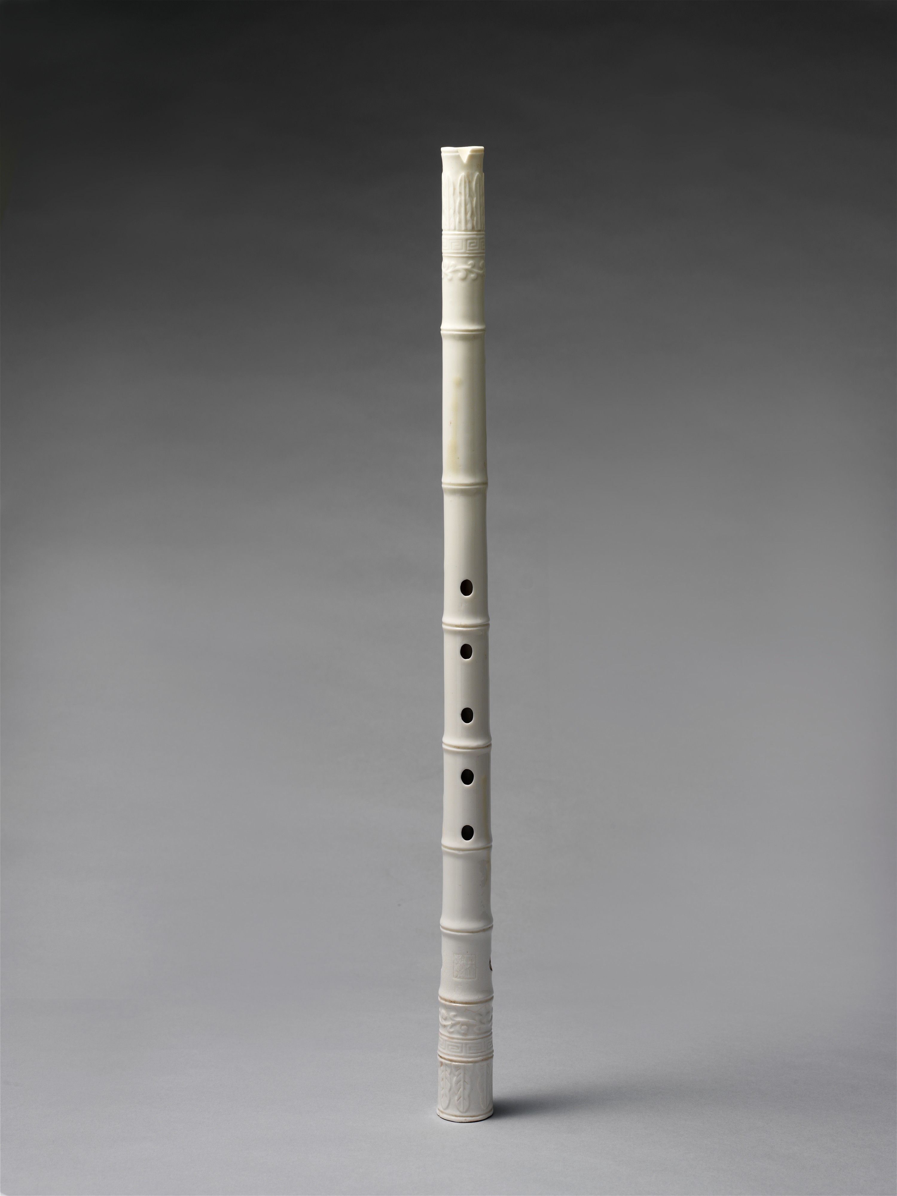 Chinese; Xiao; Aerophone-Blow Hole-end-blown flute (vertical)